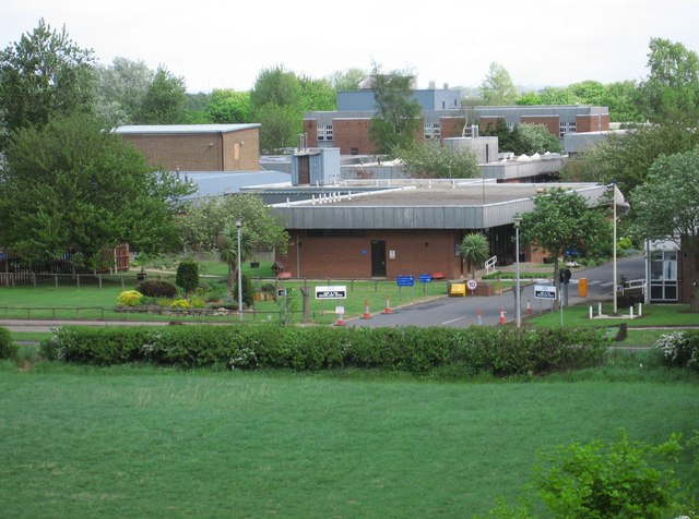 HMP & YOI Moorland Open Prison View from Crook Tree Lane, bordering the M18.